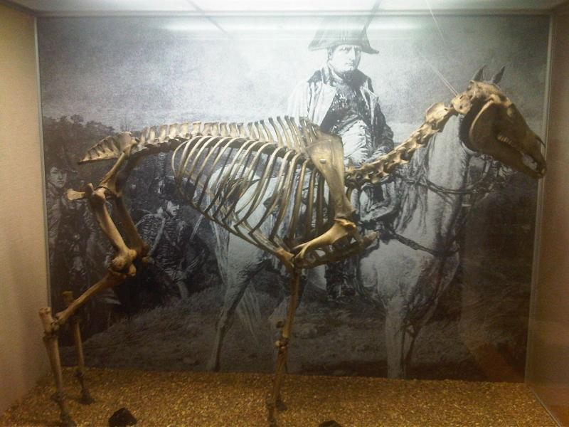 The skeleton of Marengo, Napoleon's favourite horse at the National Army Museum in London, England. Marengo was a grey Arab stallion 14 hands high, obtained by Napoleon after the Battle of Aboukir in 1799. One of at least seven horses acquired by the Emperor during his Egyptian and Syrian campaigns, Marengo was the most celebrated. Named after a French victory over the Austrians in 1800, Marengo was ridden by Napoleon in several later campaigns including Waterloo. Marengo was captured at the end of the Battle of Waterloo and put on public display in London. It was later sold to Lieutenant-General J.J.W.Angerstein, a noted horse breeder, who put it to stud near Newmarket. When Marengo died in 1832, its skeleton was articulated by Surgeon Wilmat of the London Hospital and presented to the Royal United Services Museum. The missing hoowes were made into snuff boxes; the skin, put aside for a taxidermist to stuff, was lost.